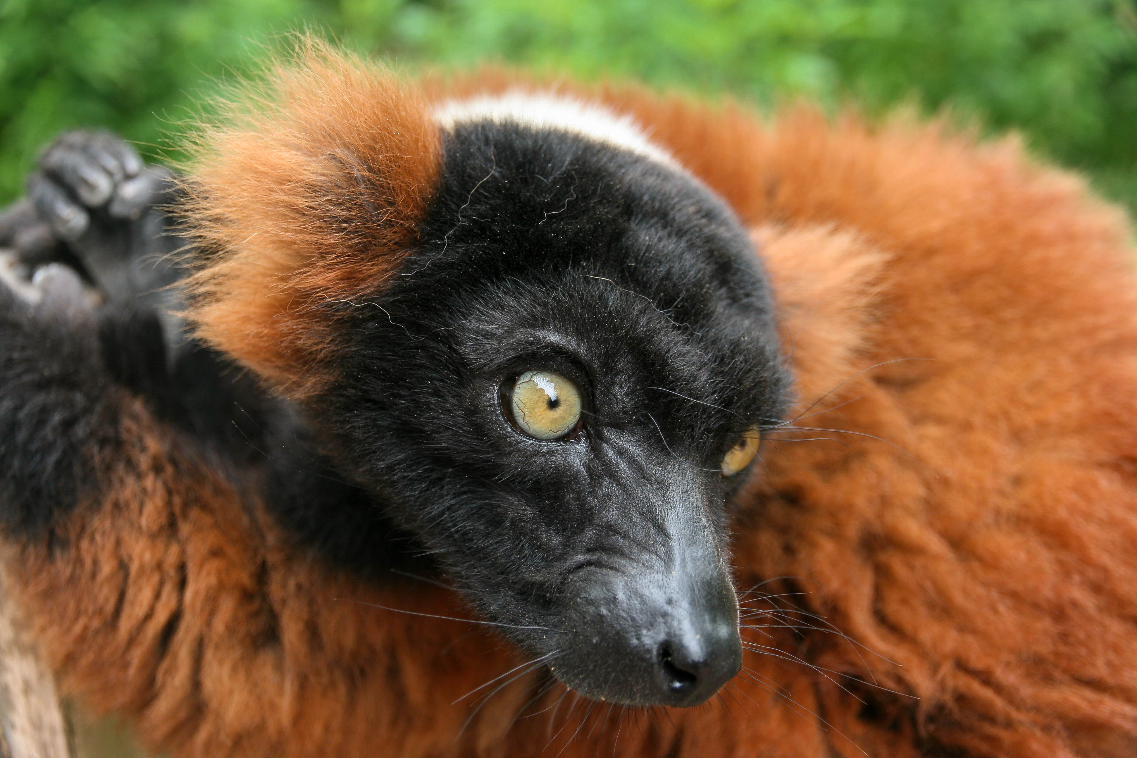 Red ruffed lemur